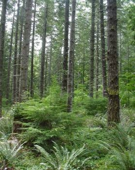 Young even-aged, second growth conifer stand on western slope of Cascade Mountains in Oregon